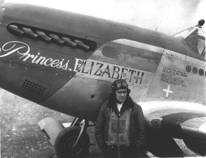 Lt. William “Bill” Whisner of 352nd Fighter Group, stands next to his P-51B Mustang 'Princess Elizabeth'